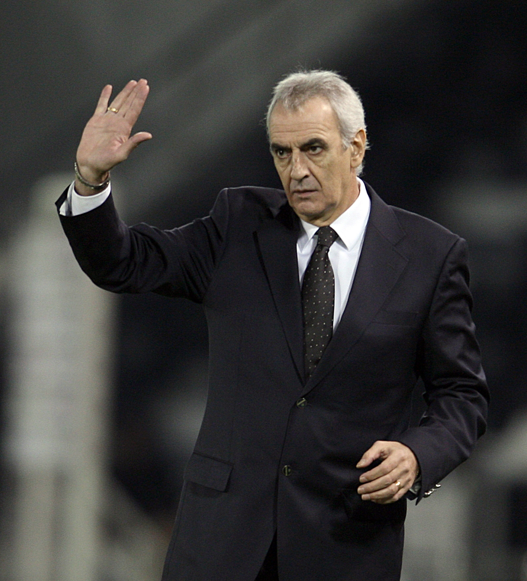 Al Sadd coach Jorge Fossatti gestures during his team's Qatar Stars League game against Al Kharaitiyat